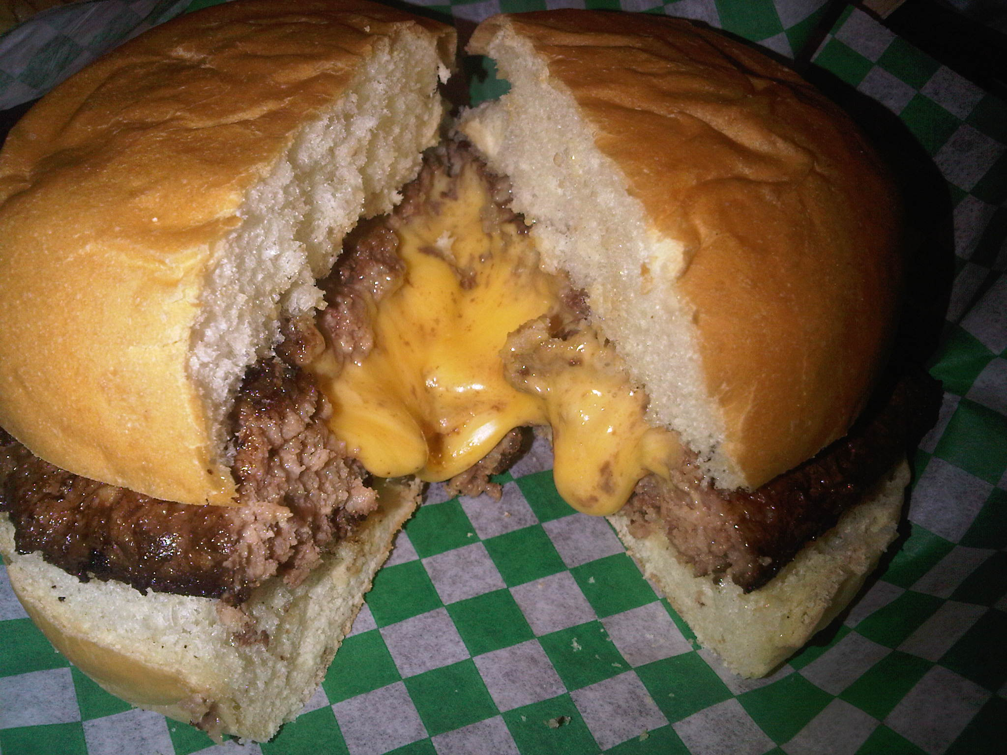 A Juicy Lucy from Minneapolis's 5-8 Club.